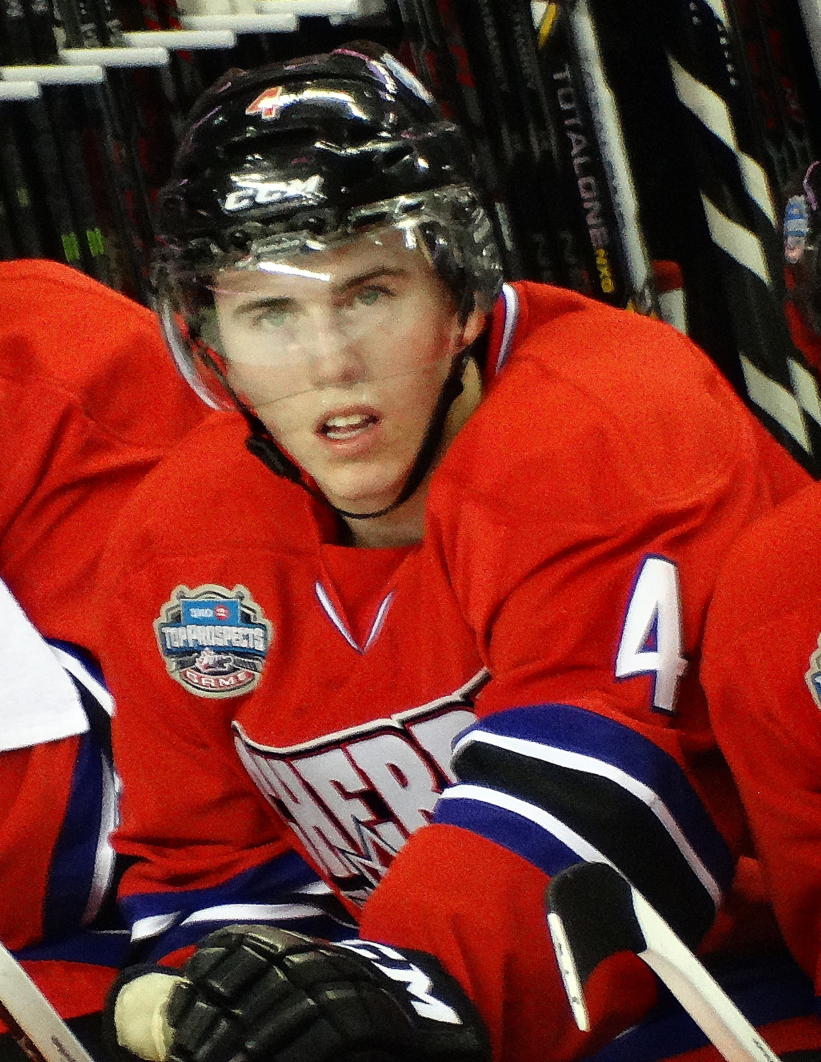 Haydn Fleury (right), Canadian ice hockey player at the CHL / NHL Top Prospects Game